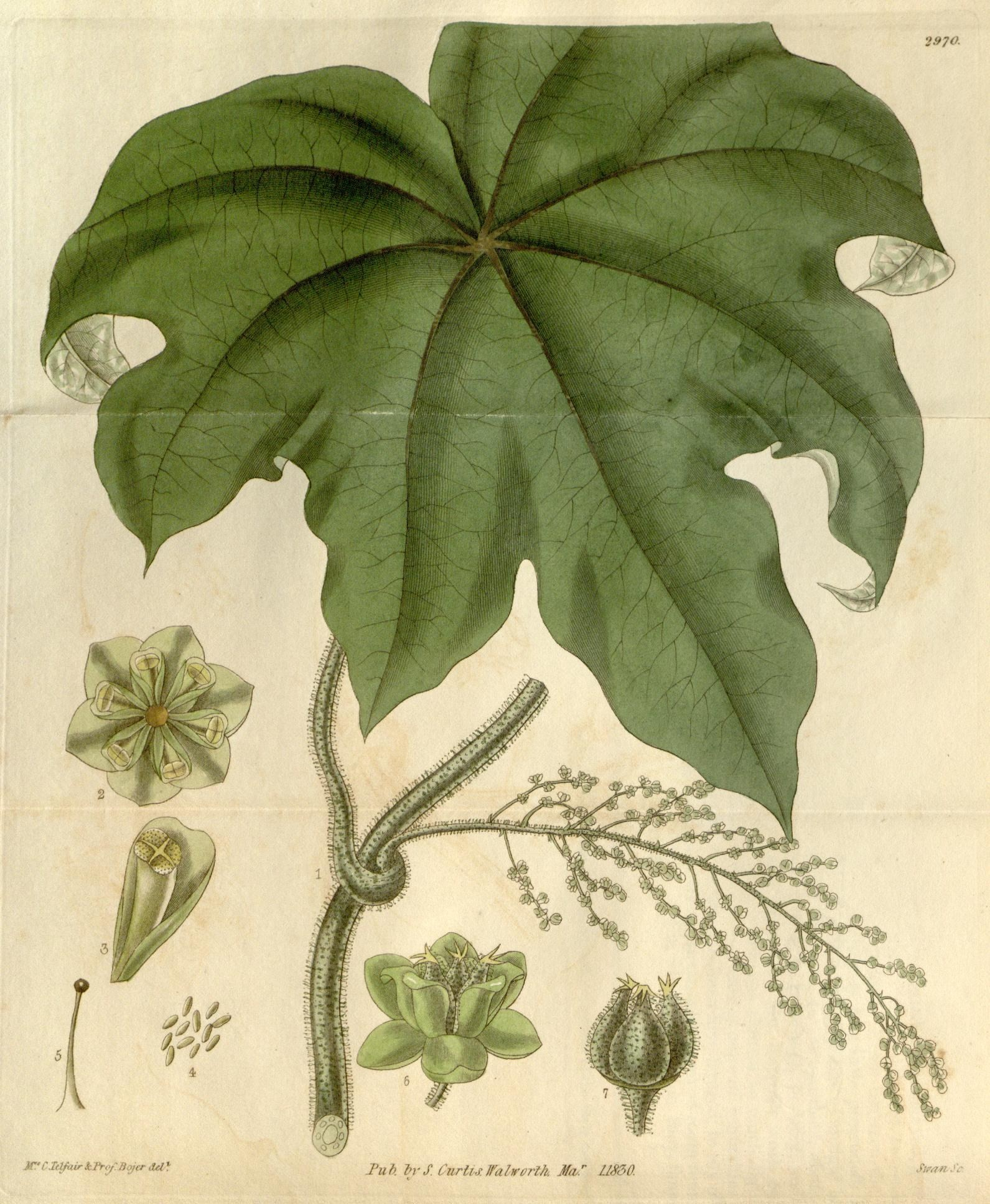 Formerly Cocculus palmatus now called Jateorhiza palmatus